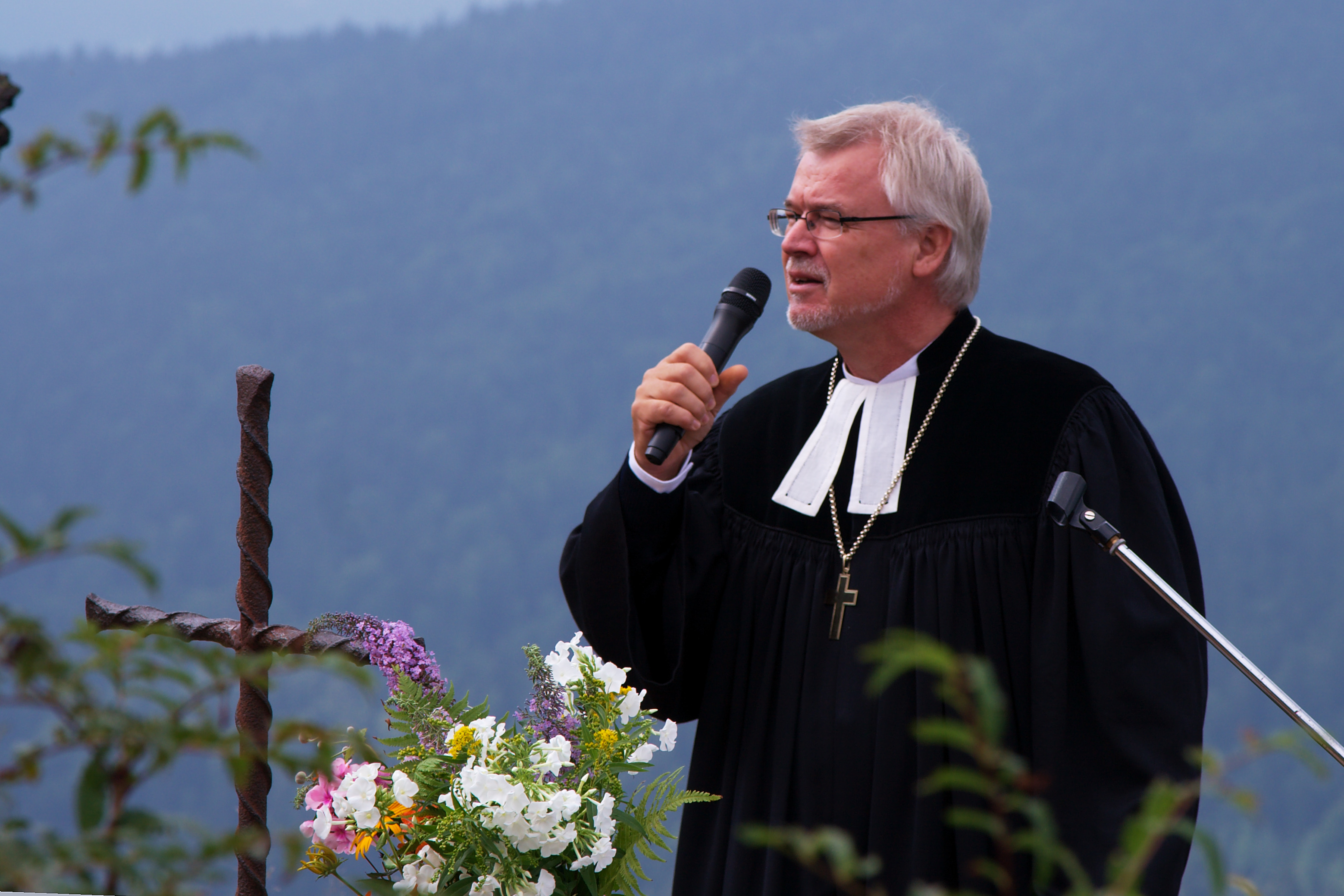 Dr. Stefan Ark Nitsche preaching at a service on the Silberberg near Bodenmais.